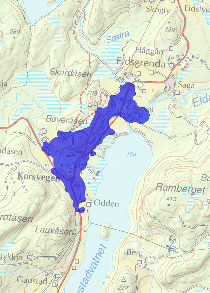 Map of Korsvegen, Melhus community made by Statistisk Sentralbyrå based on data of 01.01.2012.